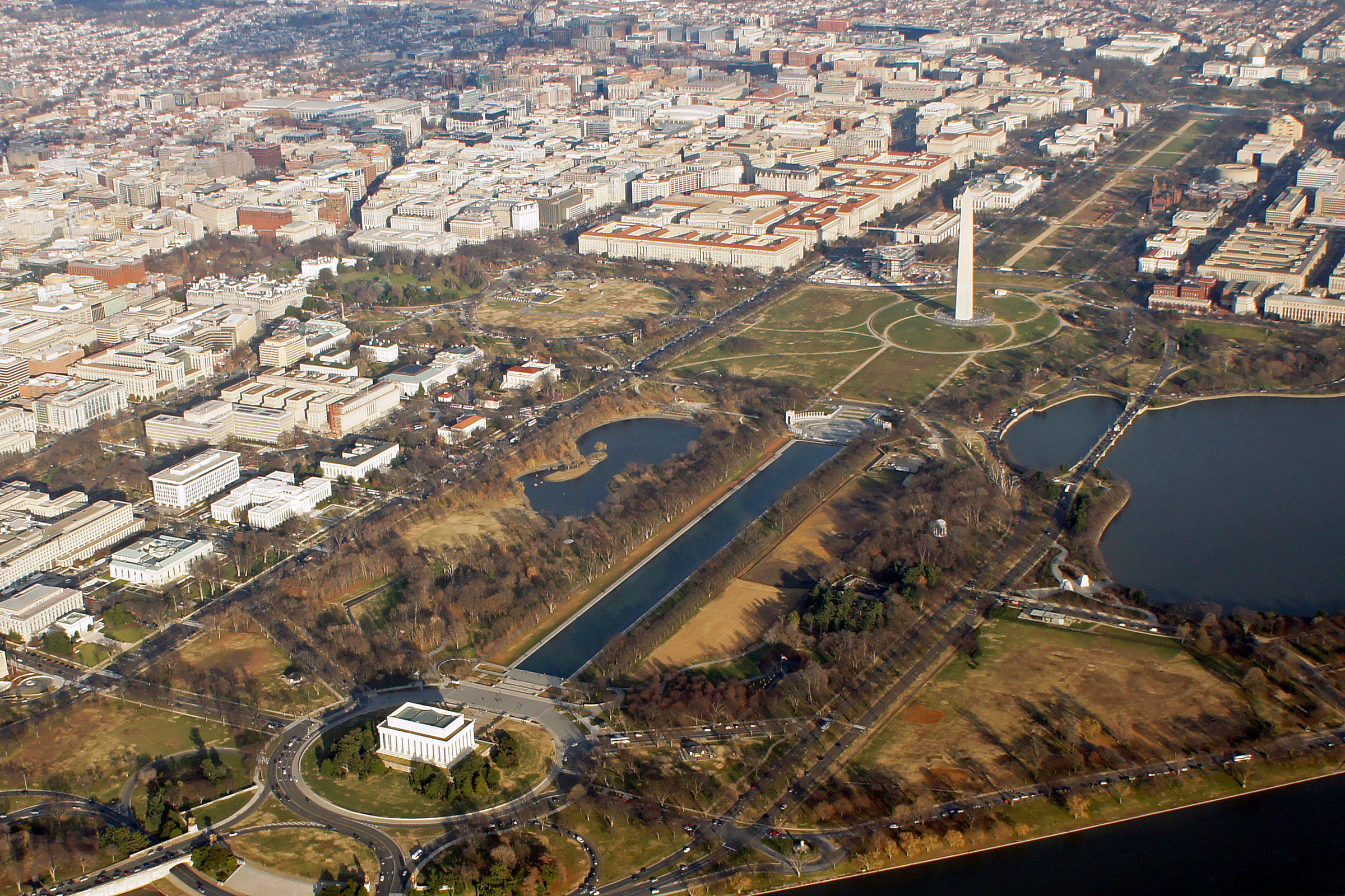 Aerial view National Mall , Washington, D.C. From bottom right to top left, Lincoln Memorial, Reflecting Pool, World War II Memorial, Washington Monument and U.S. Capitol